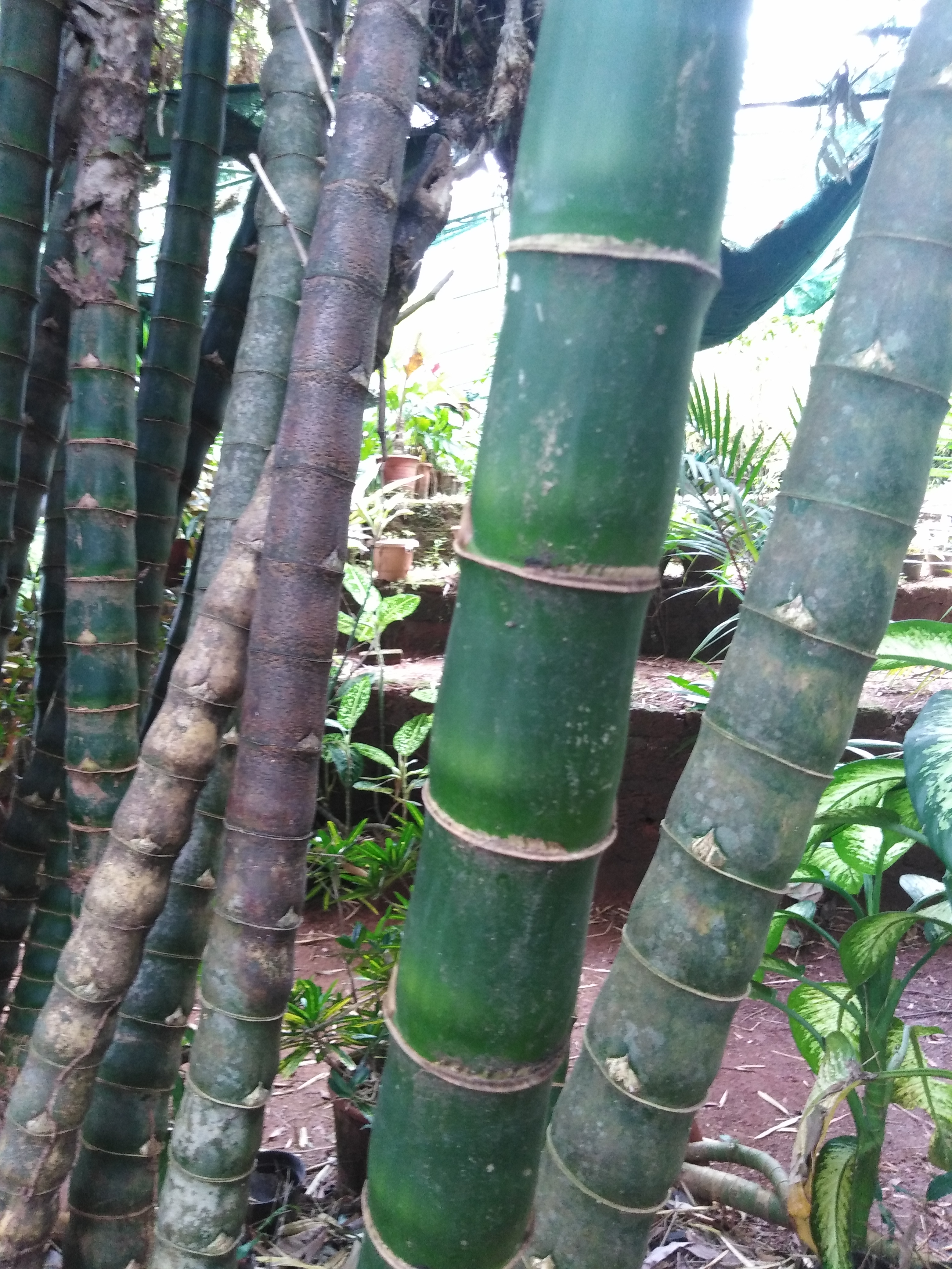 this photo of the plant punarvasu is taken from shobhavana of mijar